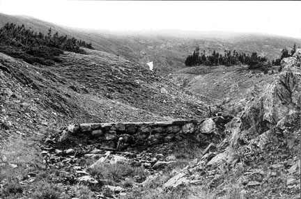 View of the Fall River Pump House Catchment Basin, located near the top of Fall River Road in the Larimer County portion of Rocky Mountain National Park in the U.S. state of Colorado. Built in 1938, it and the adjacent pump house are listed together on the National Register of Historic Places.